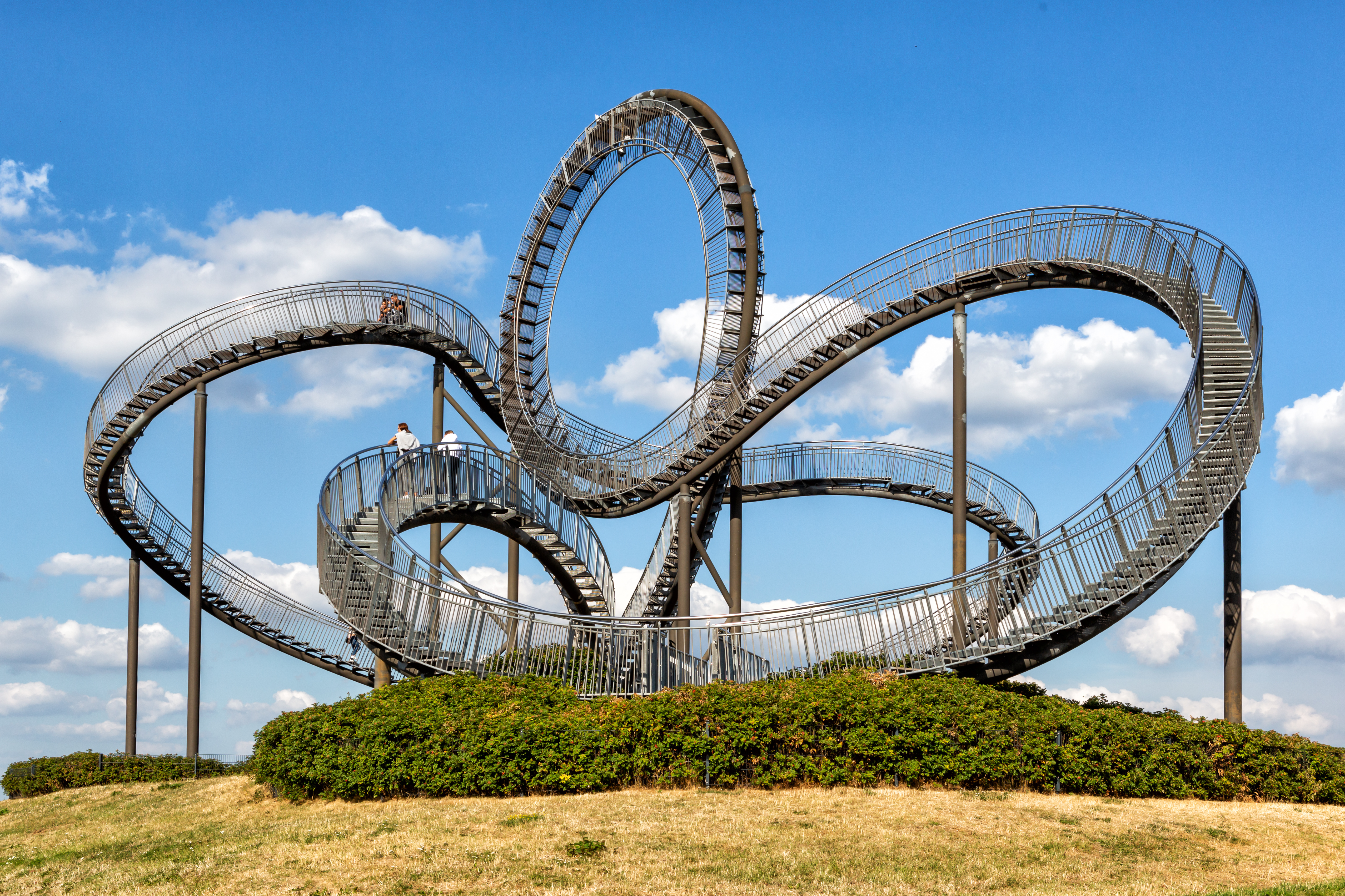 View from southwest onto the tiger and turtle sculpture in Duisburg, Germany.